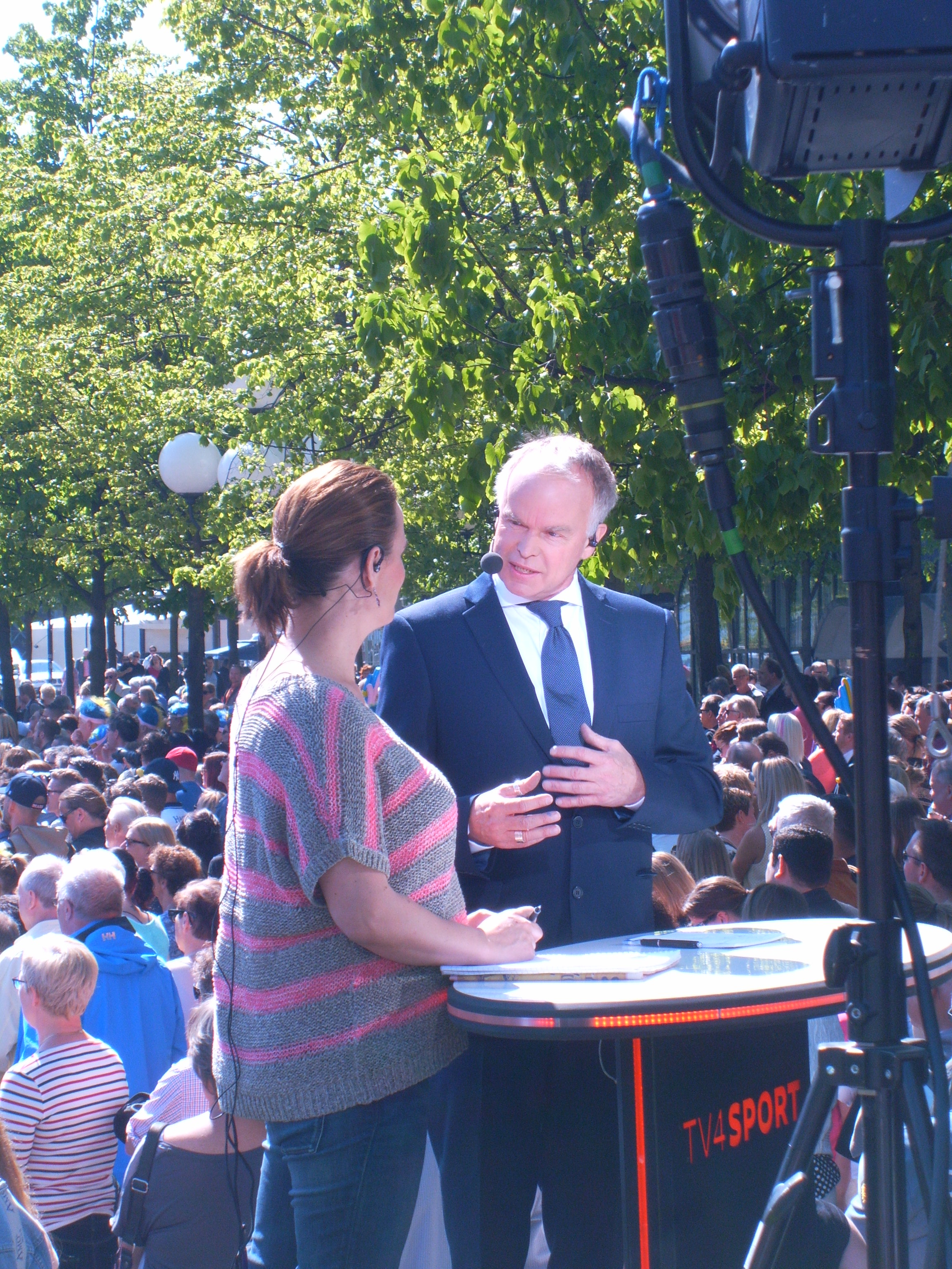 Robert Perlskog, Swedish journalist at Kungsträdgården i Stockholm.